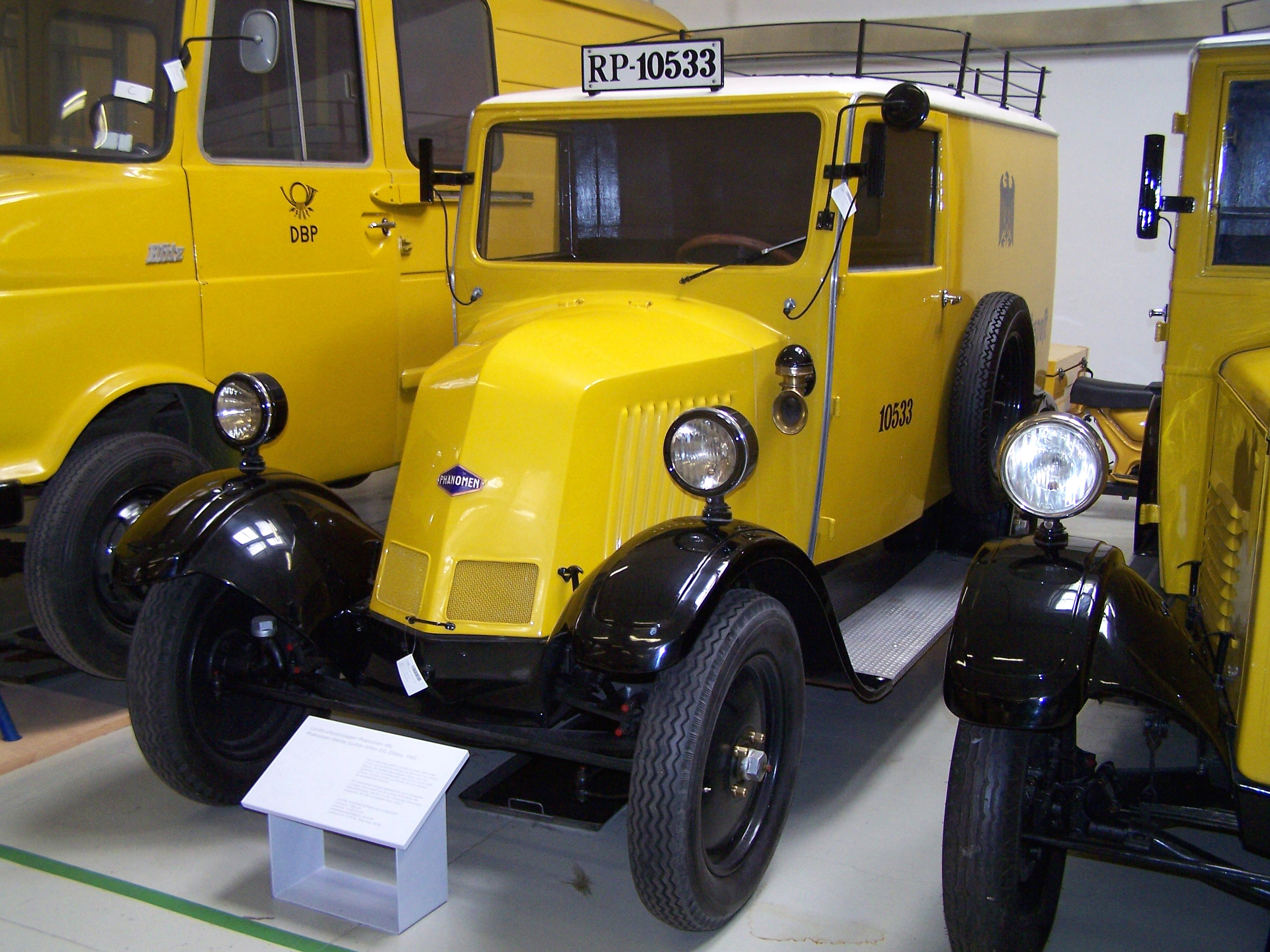 Phänomen 4RL/K box wagon (countryside post car) of the German Reichspost, built 1926, engine power 16 hp, max. speed 45 km/h, empty load 1070 kg, payload 750 kg, in the depot of the Museum for communication Frankfurt am Main in Heusenstamm